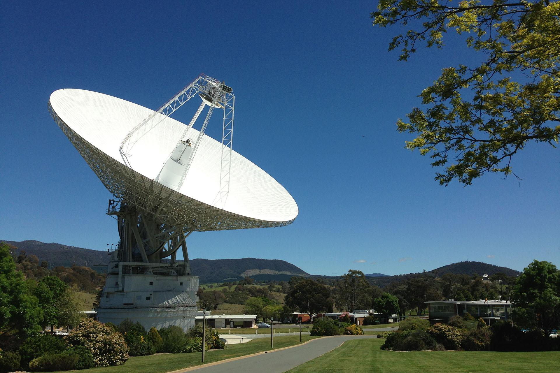 DSS43 is a 70-meter-wide radio antenna at the Deep Space Network's Canberra facility in Australia. It is the only antenna that can send commands to the Voyager 2 spacecraft.